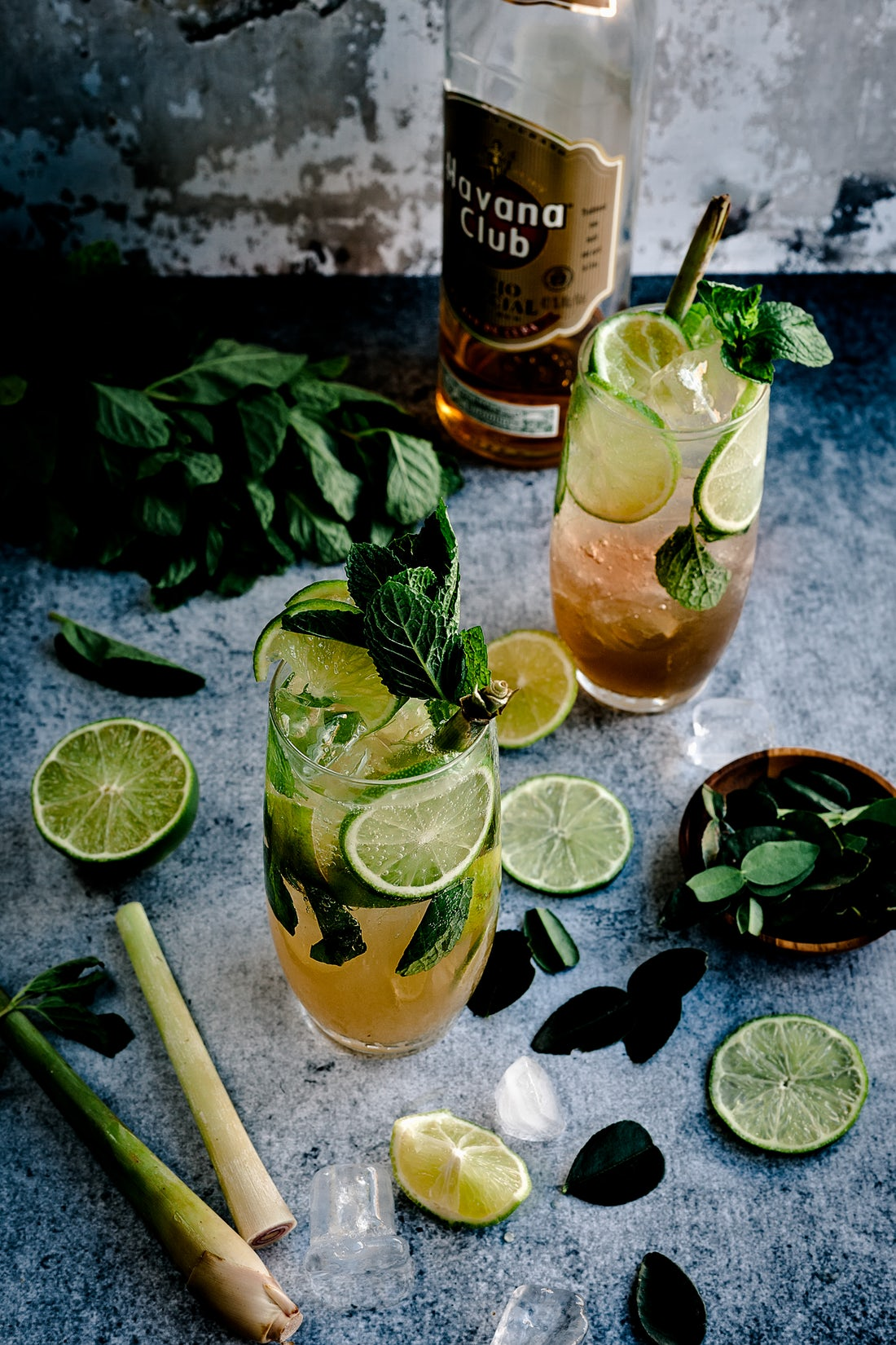 Picture of mojito for mojito wikipedia page